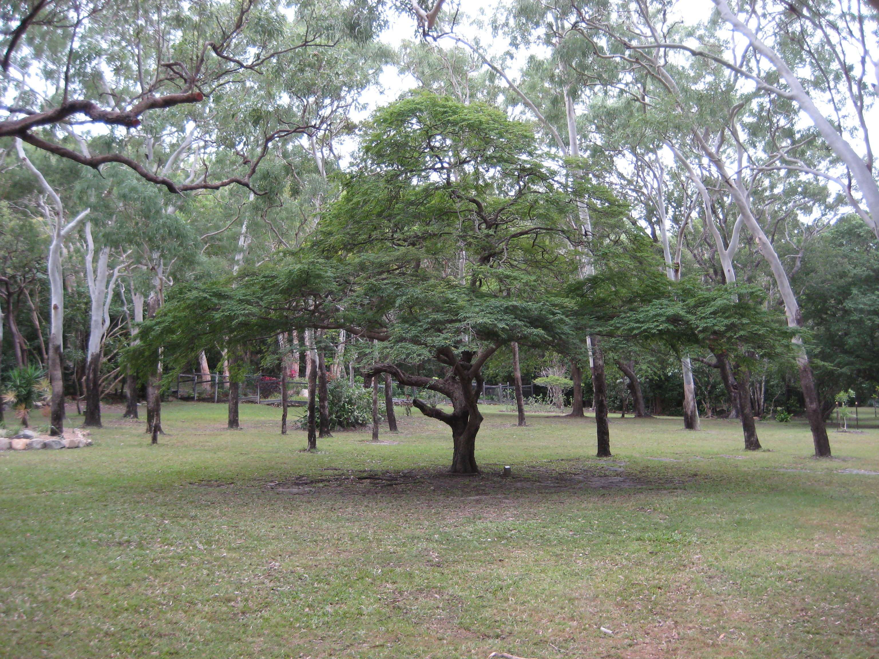 Divi-divi